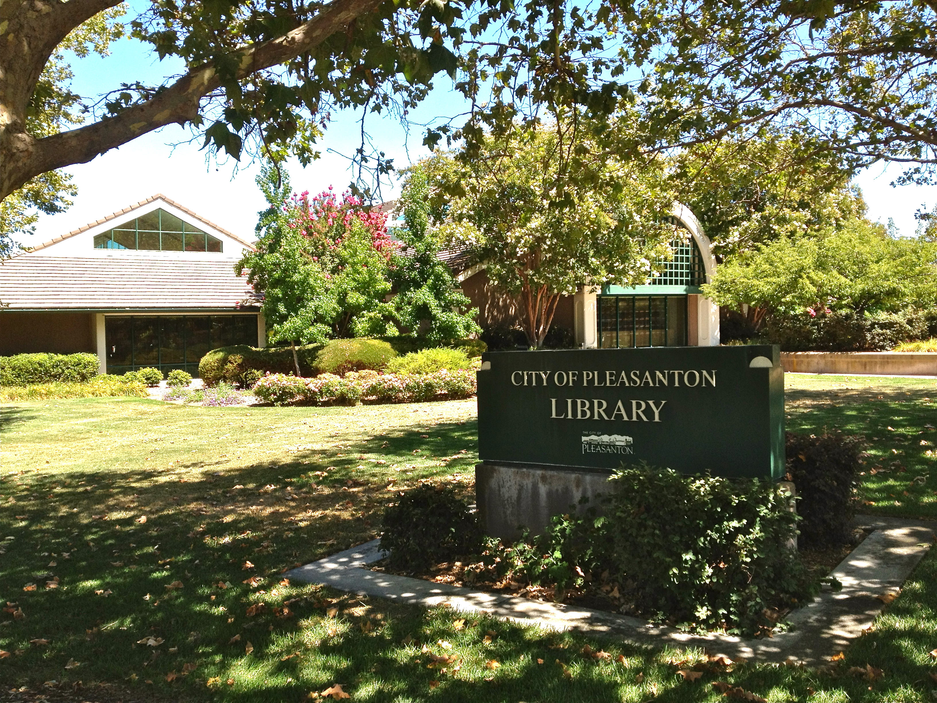 Pleasanton Library, Pleasanton California, from corner of Bernal and Case Avenues.